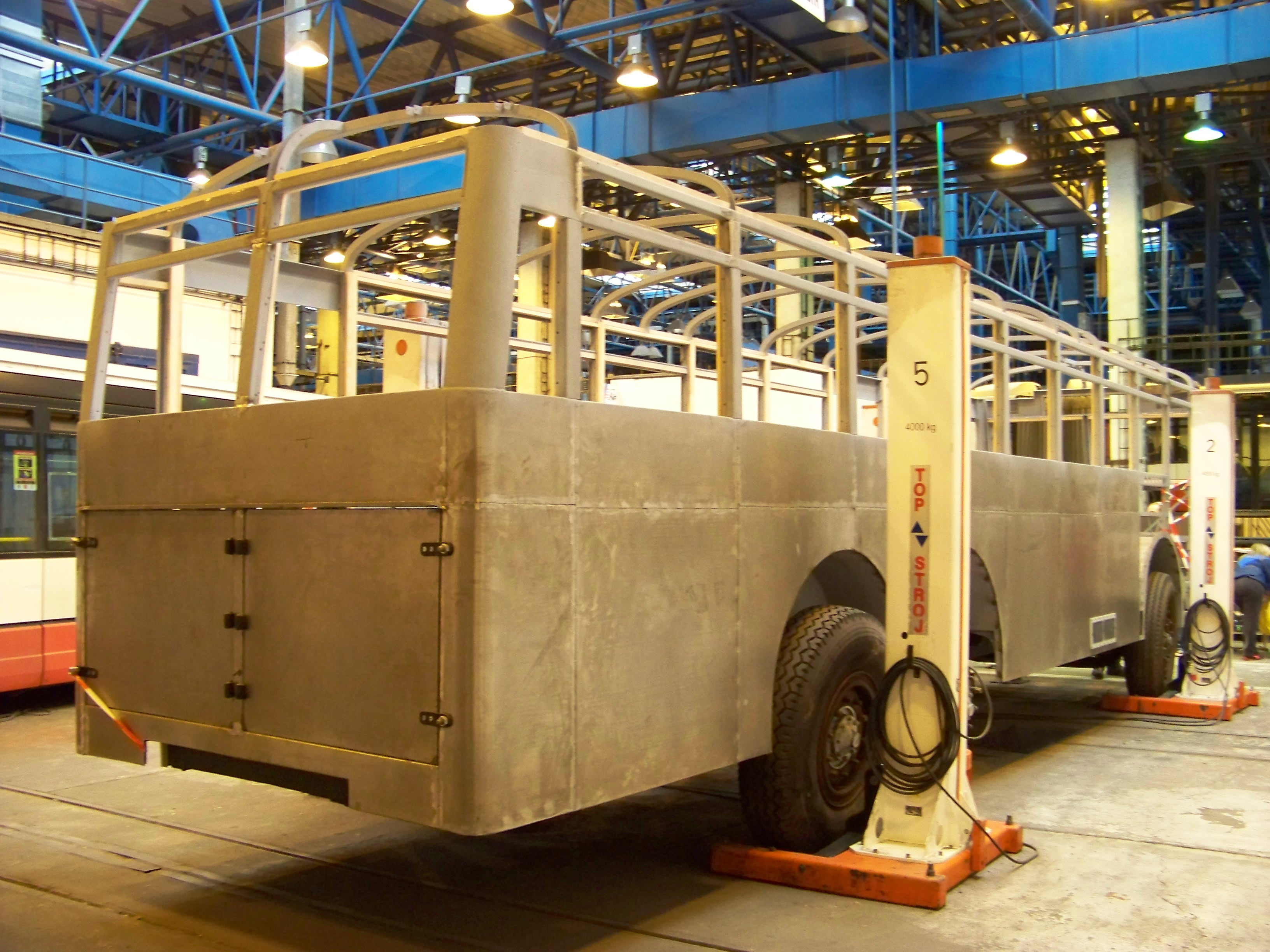 Prague-Hostivař, Czech Republic. A bus depot and repair base, open doors day. Reconstruction of Praga TOT trolleybus. - OpenStreetMap (Info)